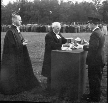 Left: Swedish clergyman and bishop John Cullberg. Center: Swedish clergyman Hugo Berggren. Right: Swedish clergyman Simon Forshem. Picture taken in 1943, when the eucharist silver of the regiment Västmanlands regemente was handed over to the air squadron Västmanlands flygflottilj